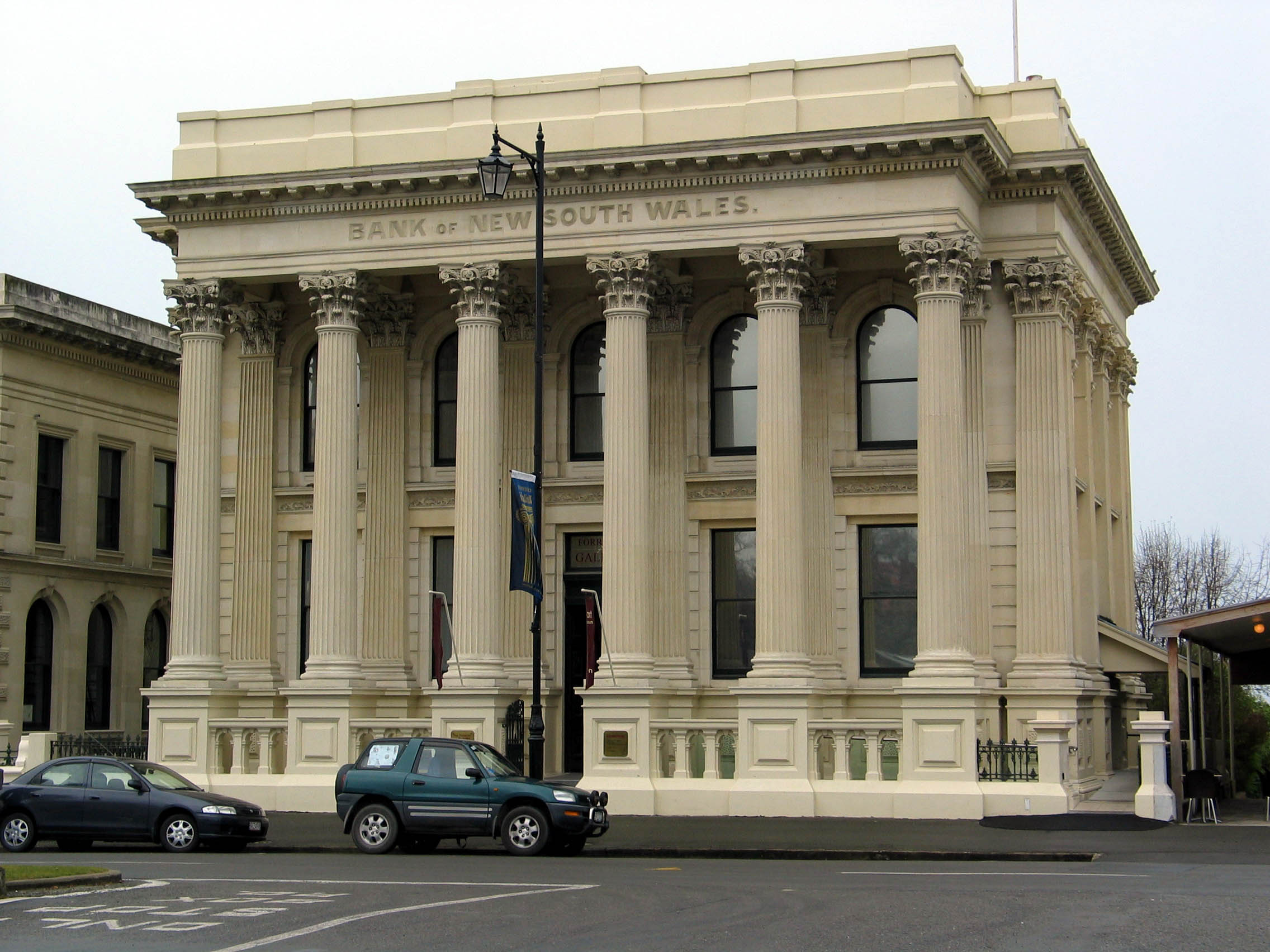 This is the former Bank of New South Wales, now the Forrester Gallery, in Oamaru, New Zealand. New Zealand Historic Places Trust Register number: 355